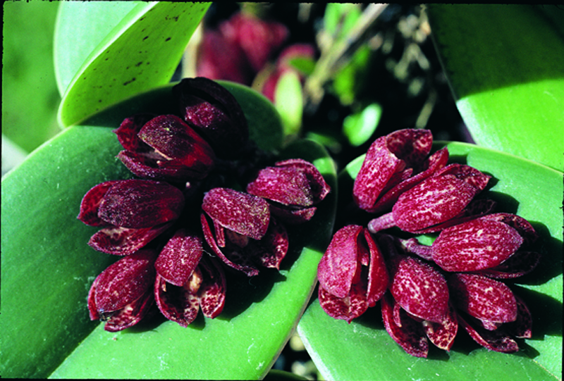 Brenesia johnsonii